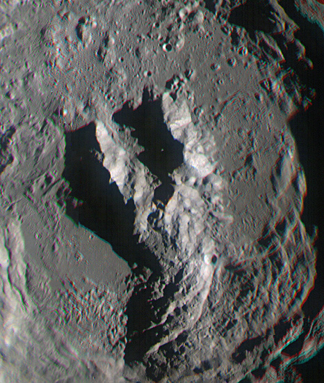 King's central peak and floor from WAC color image. The peaks have names, the west fork is called Mons Dieter, the east fork Mons André and the base that runs from the south wall is Mons Ganau.